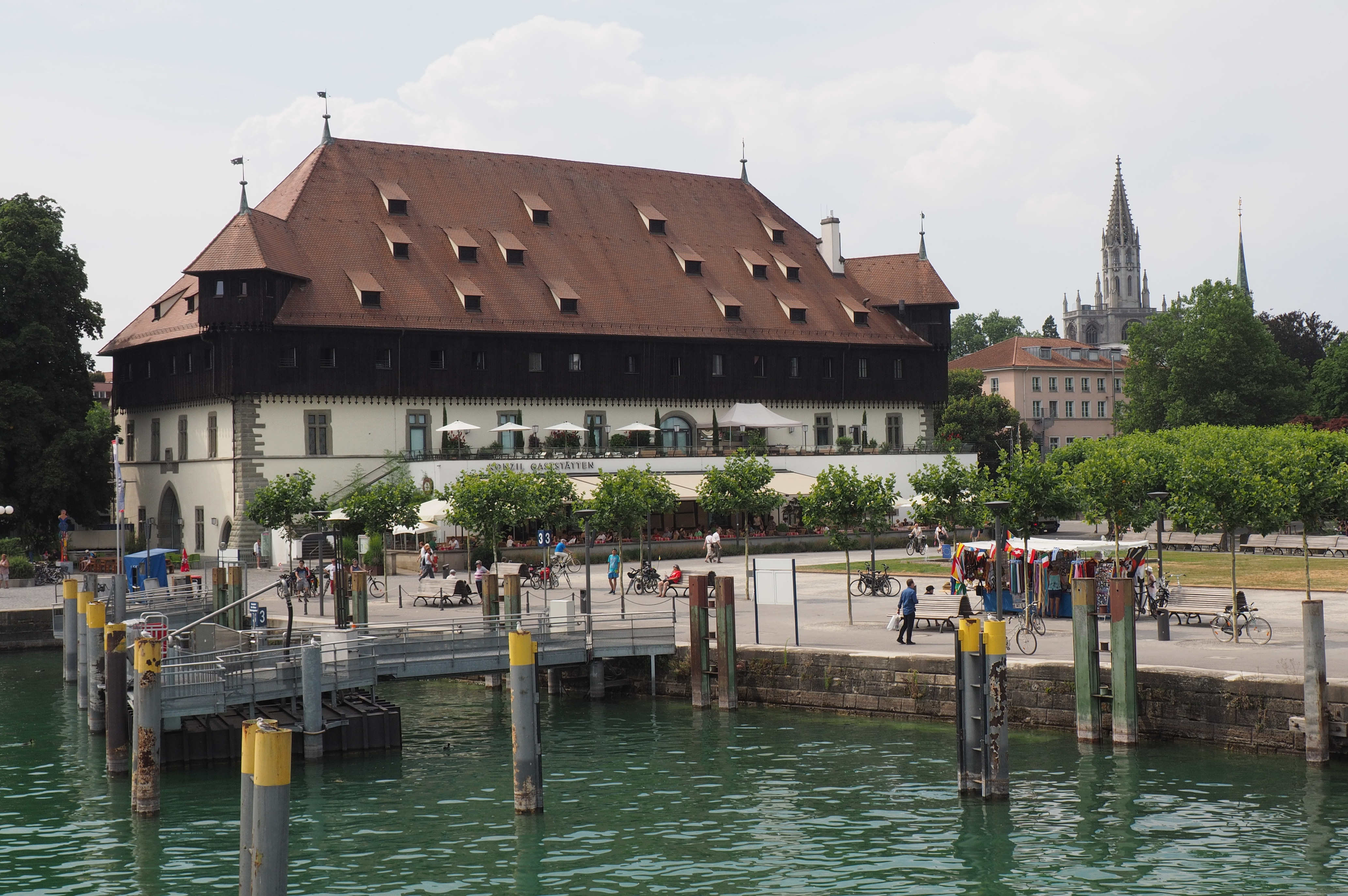 Konzilgebäude in Konstanz, in the background towers of the Konstanz Cathedral. During the Council of Constance the Papal conclave was held here.